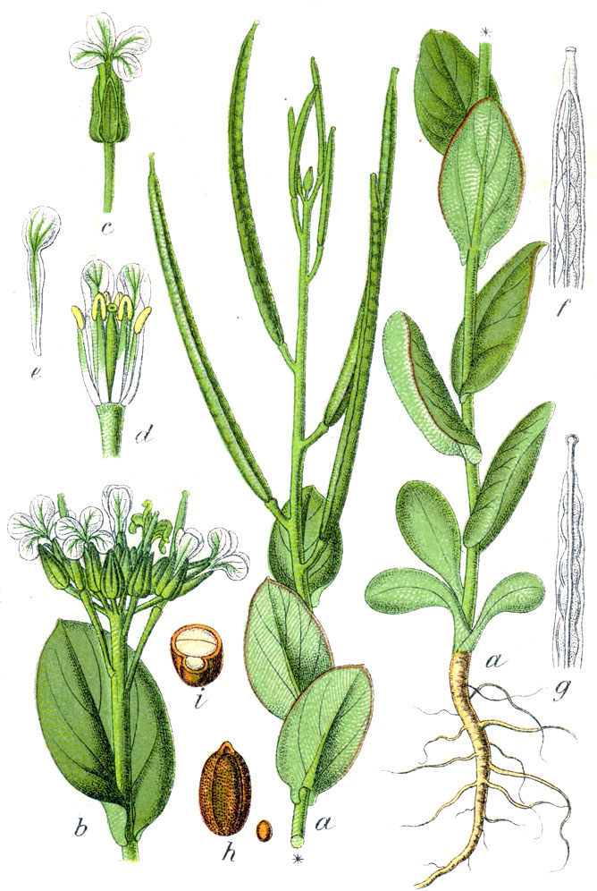 Conringia orientalis (L.) Dumort., syn. Crucifera conringia E.H.L.Krause Original Caption Conringie, Crucifera conringia